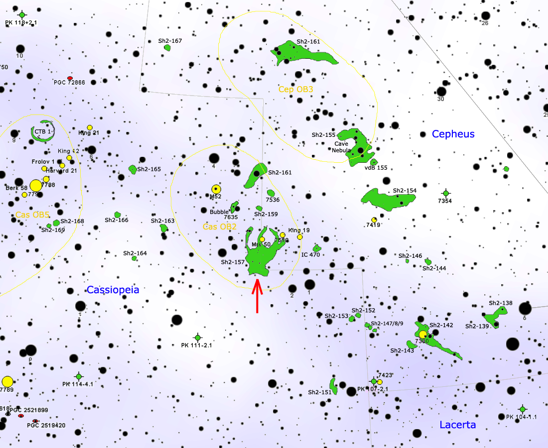 Map of Cassiopeia OB2 and evidenced Sh2-157